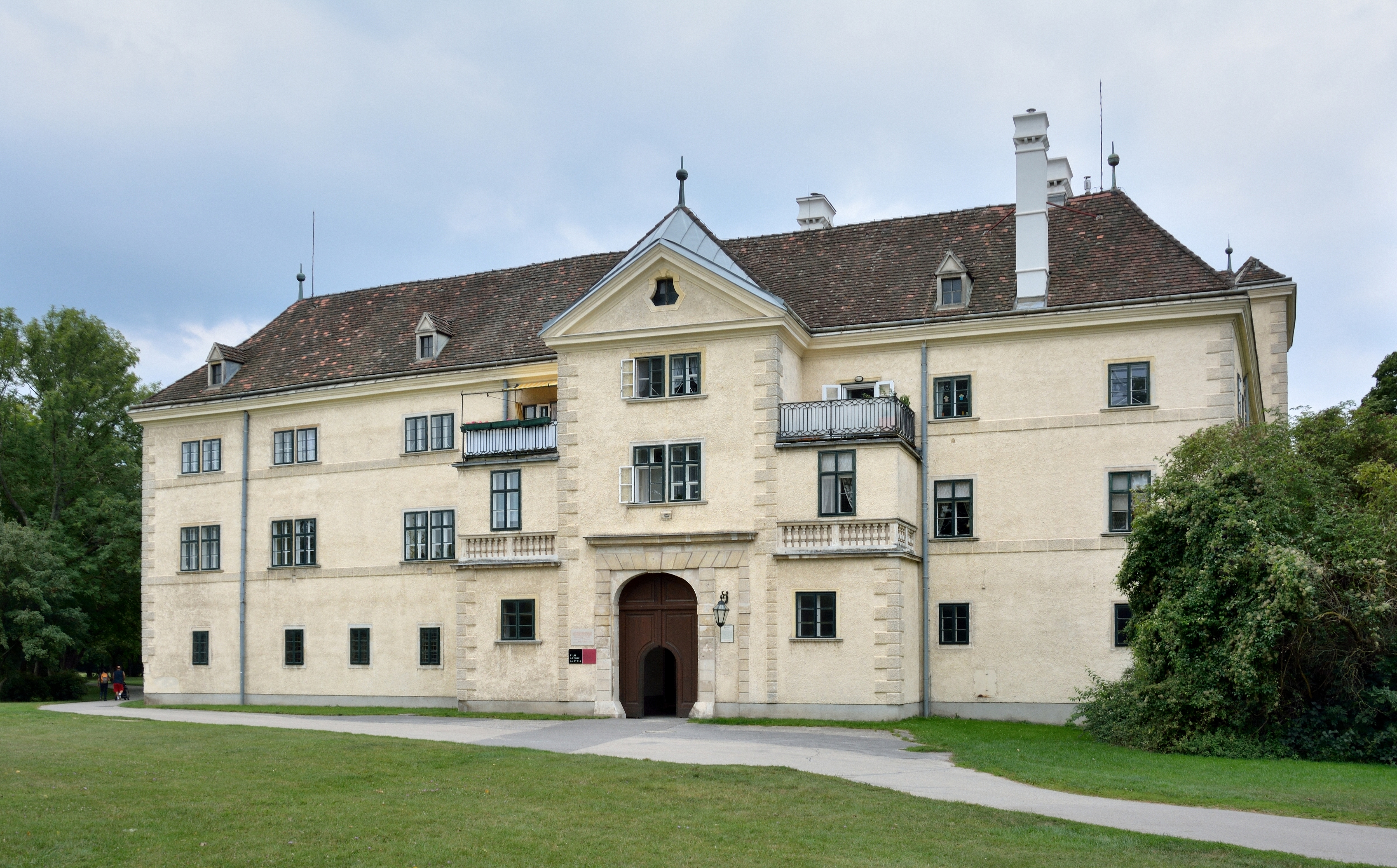 Former Film Archive Austria at Old Castle, Laxenburg, Lower Austria